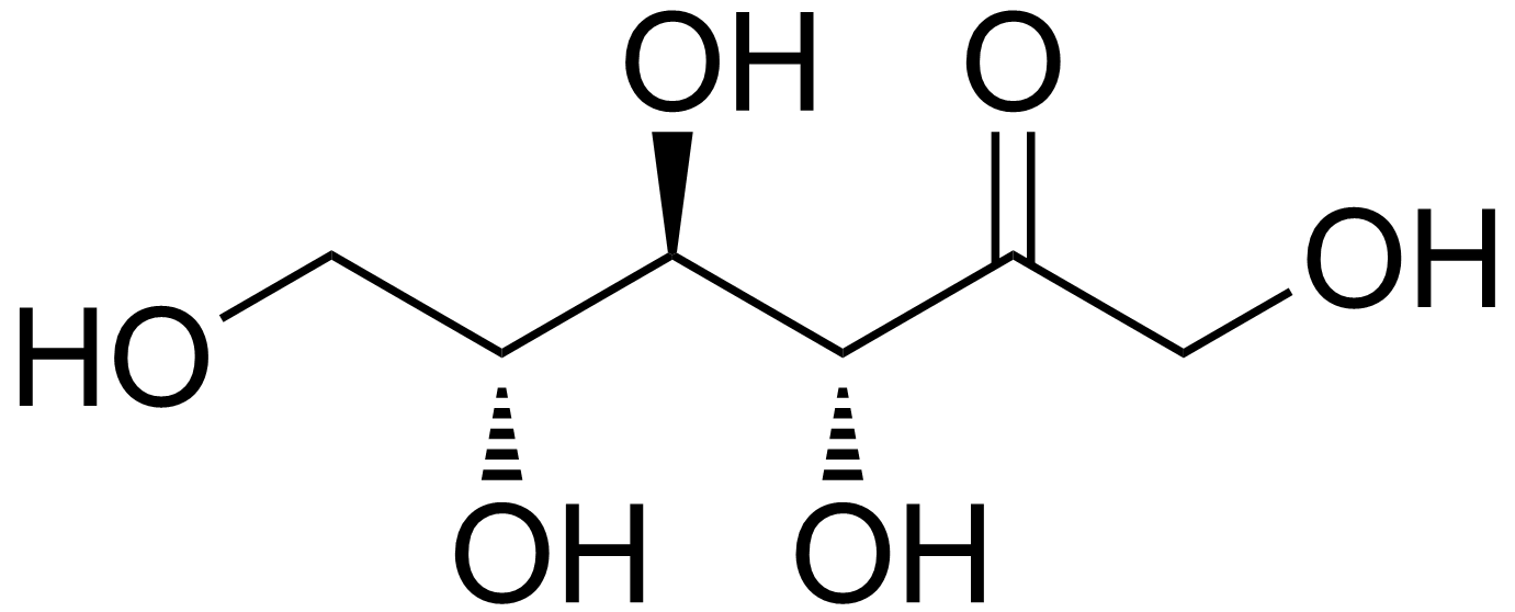 chemical structure of D-psicose created with ChemDraw